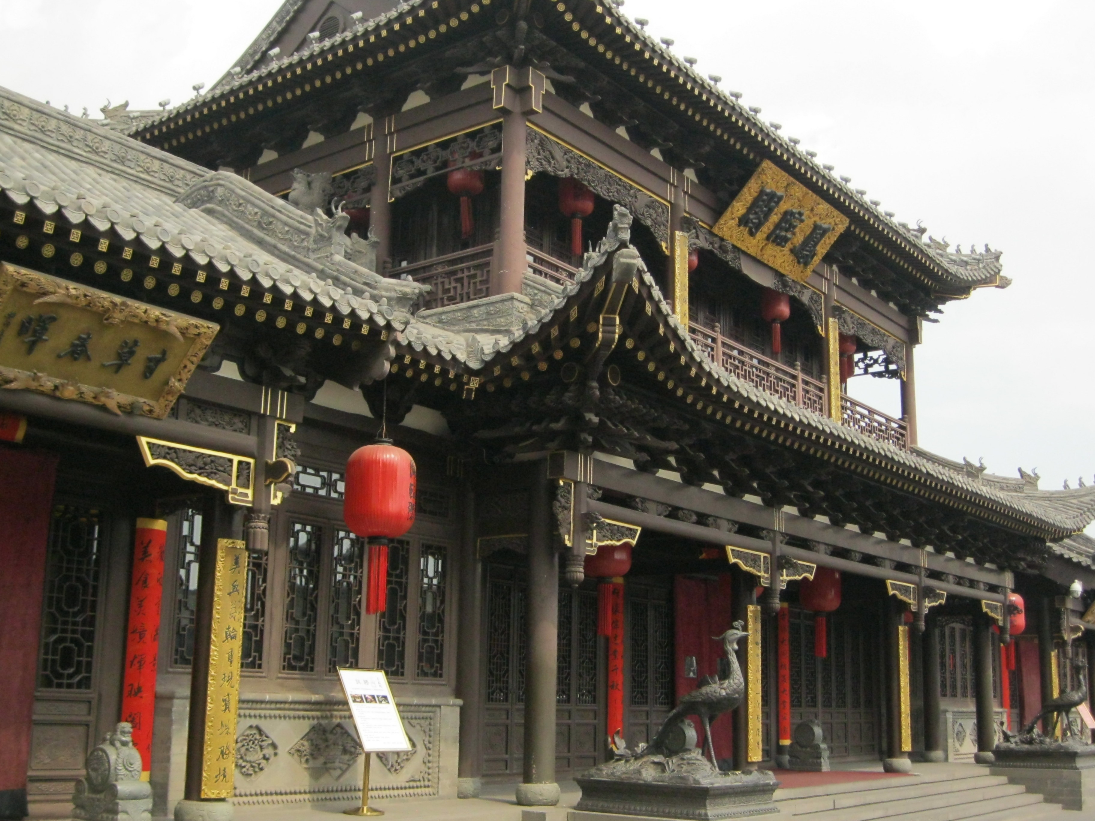 Fenglinge restaurant of Datong, Shanxi, China.